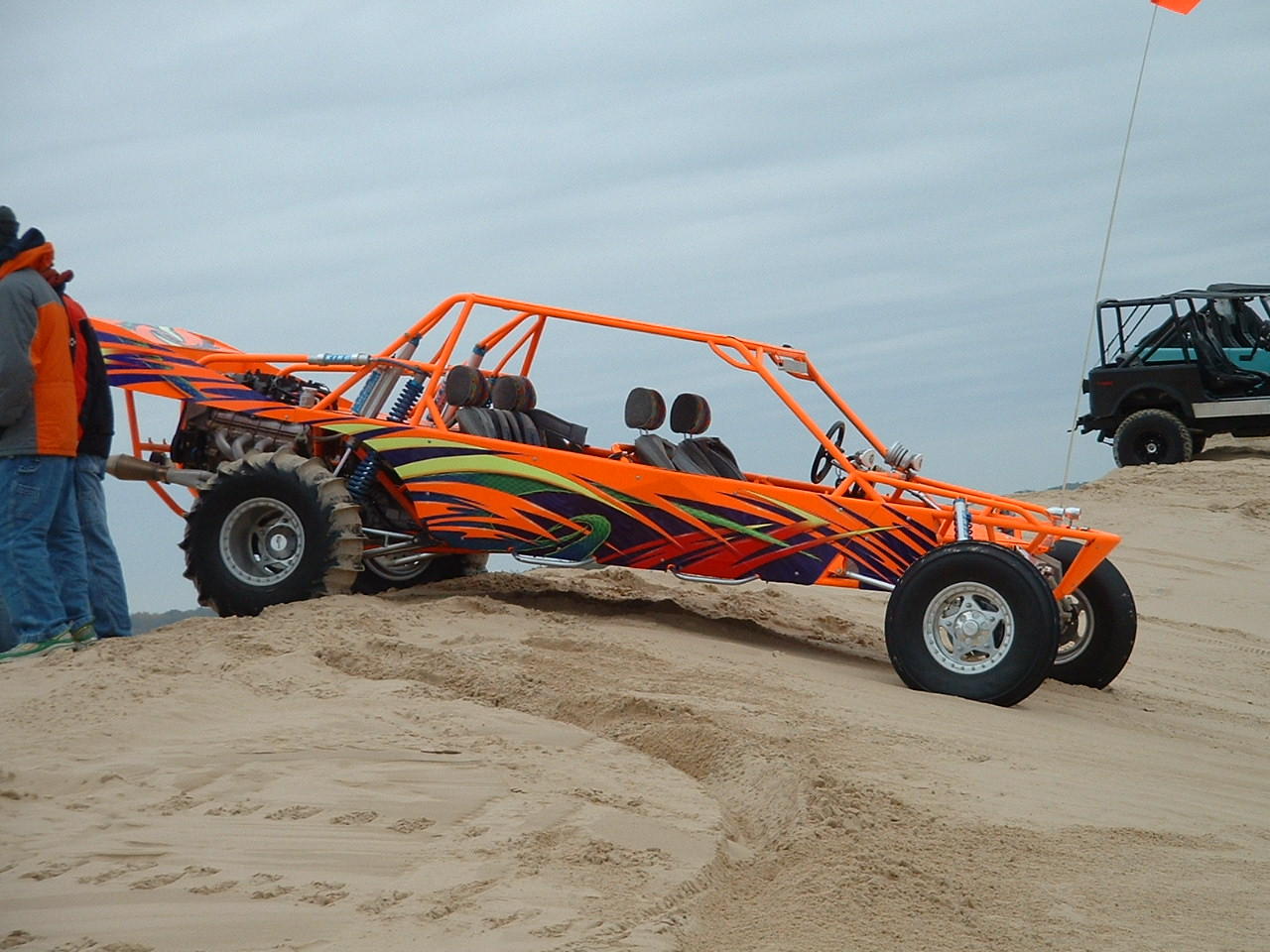 Sandrail at Silver Lake Sand Dunes, taken by Brian Banister 10/21/2006.